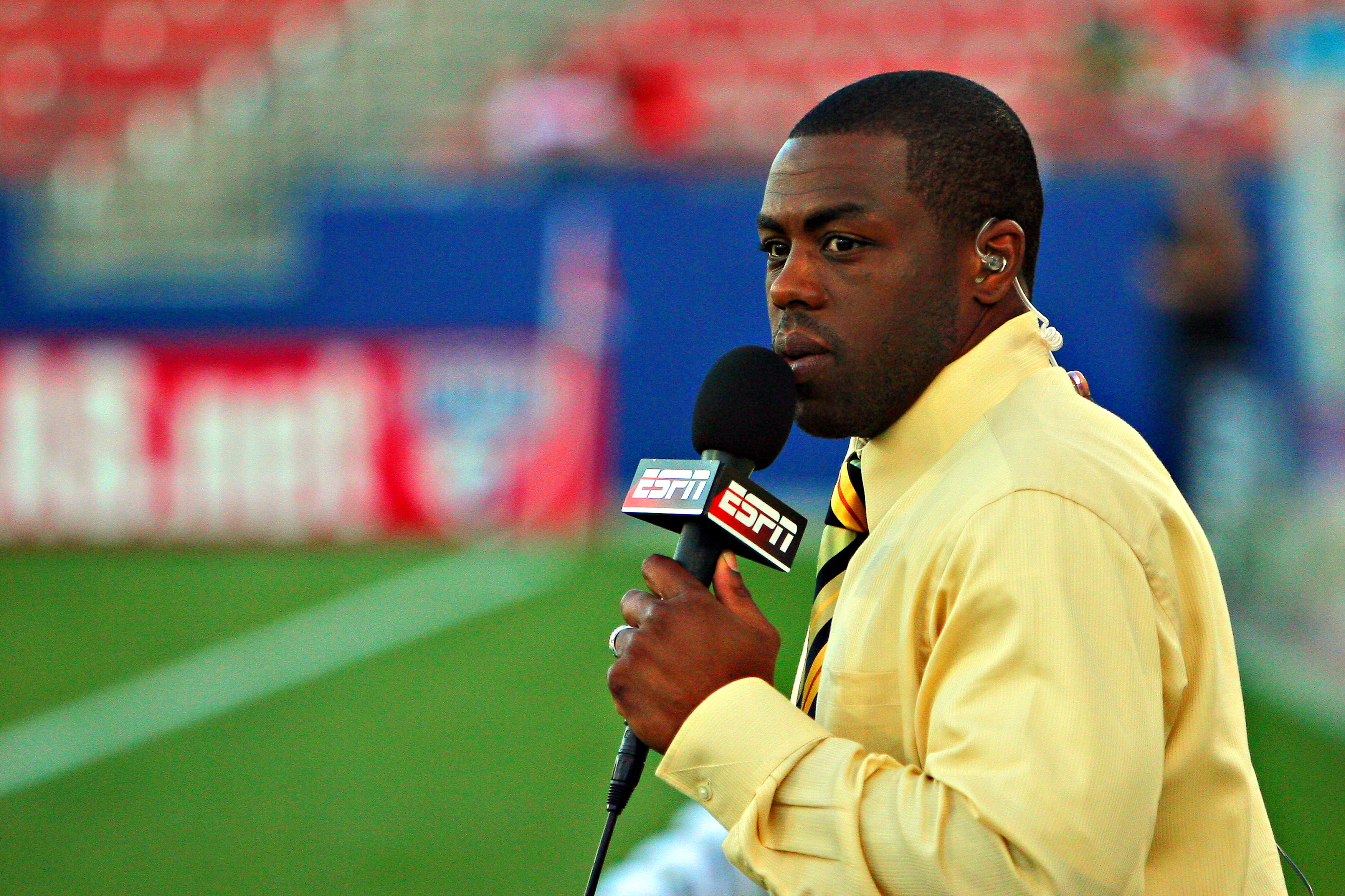 Allen Hopkins, sports commentator for ESPN